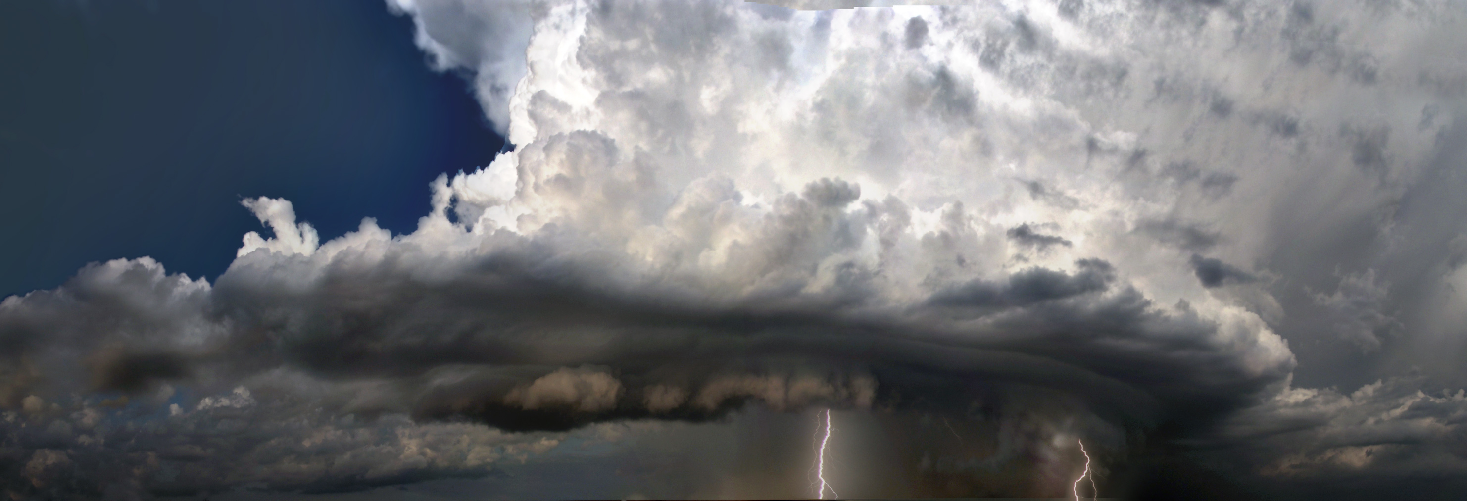 Thunderstorm with lightning (panorama photomontage)